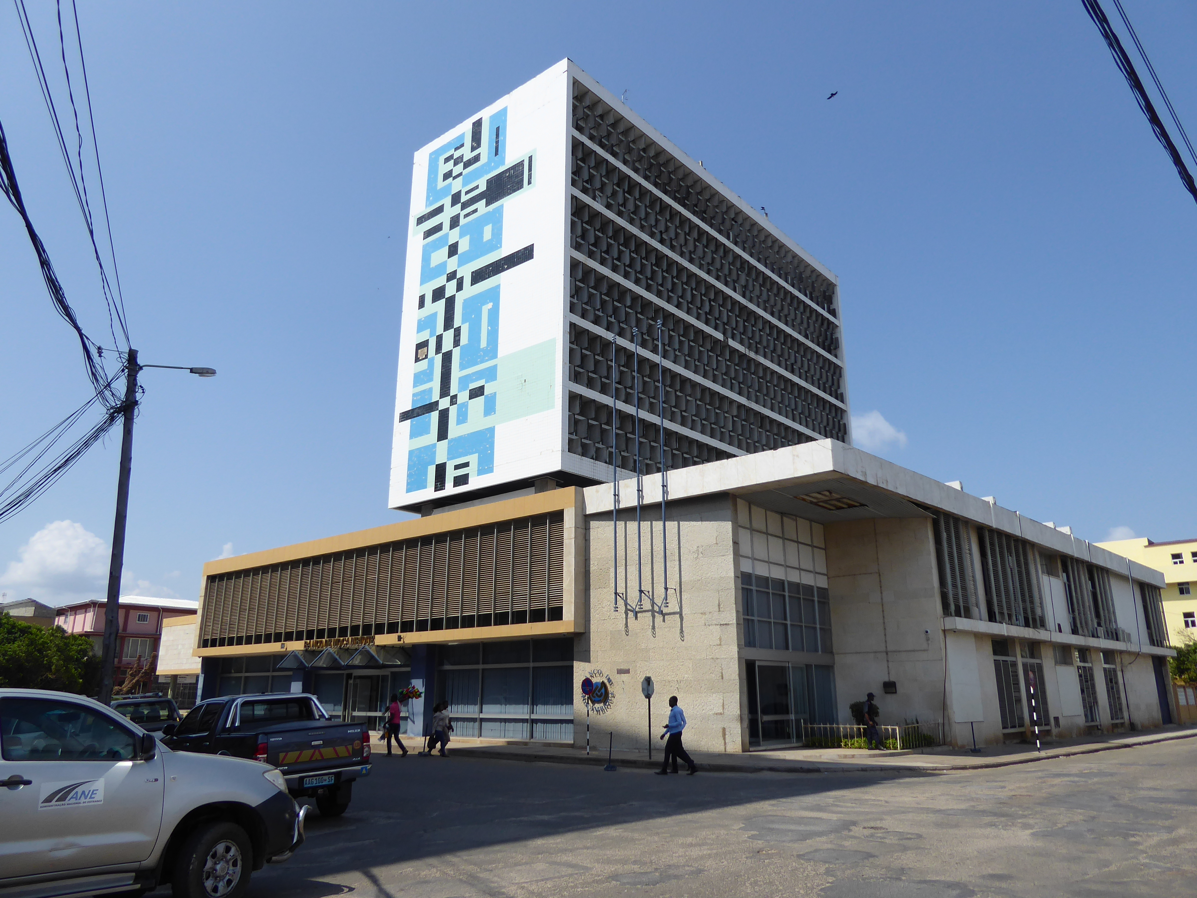 Banco de Moçambique building in Quelimane, Zambézia province, Mozambique